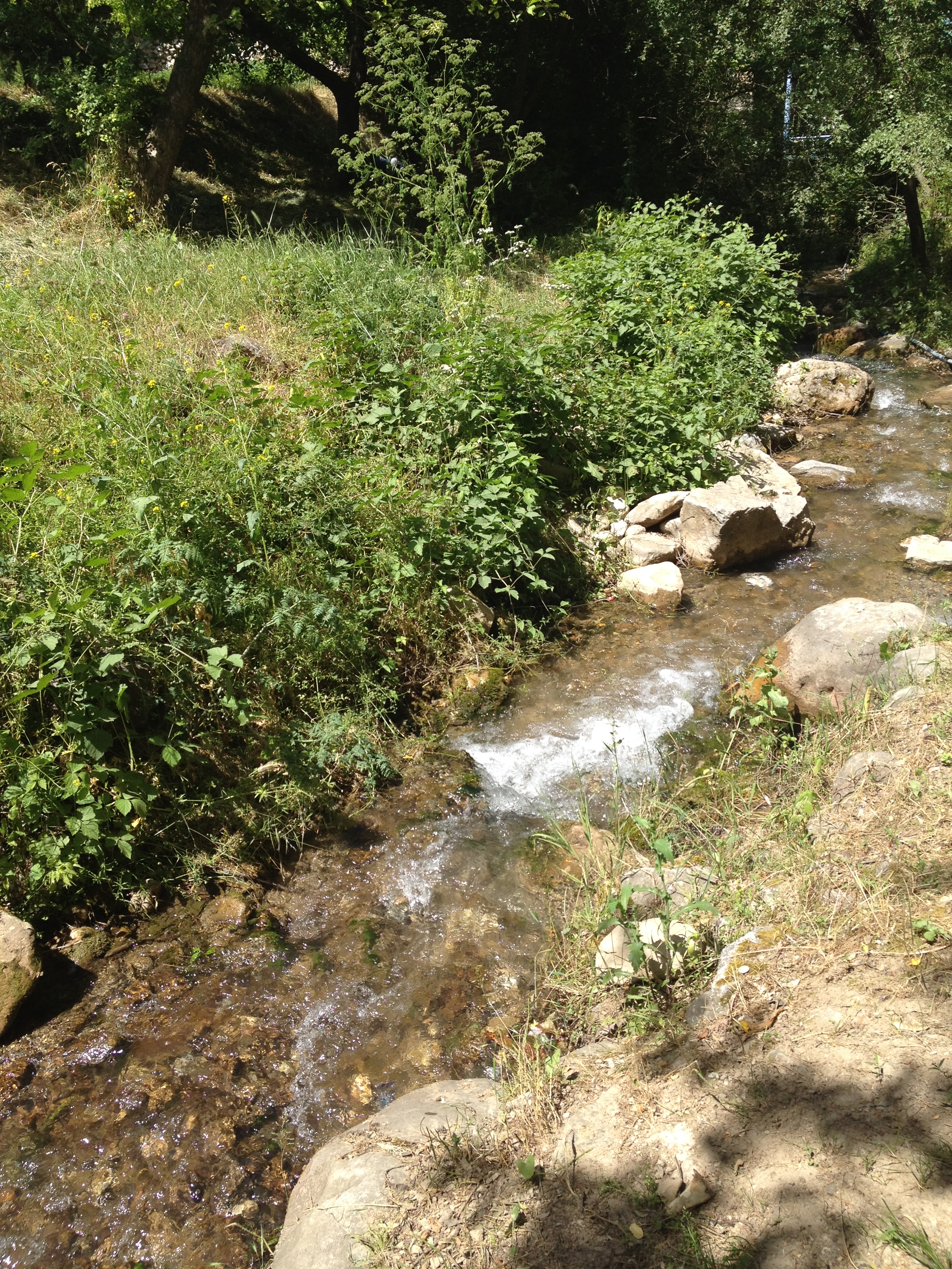 Bulbulzar Say in lower reaches